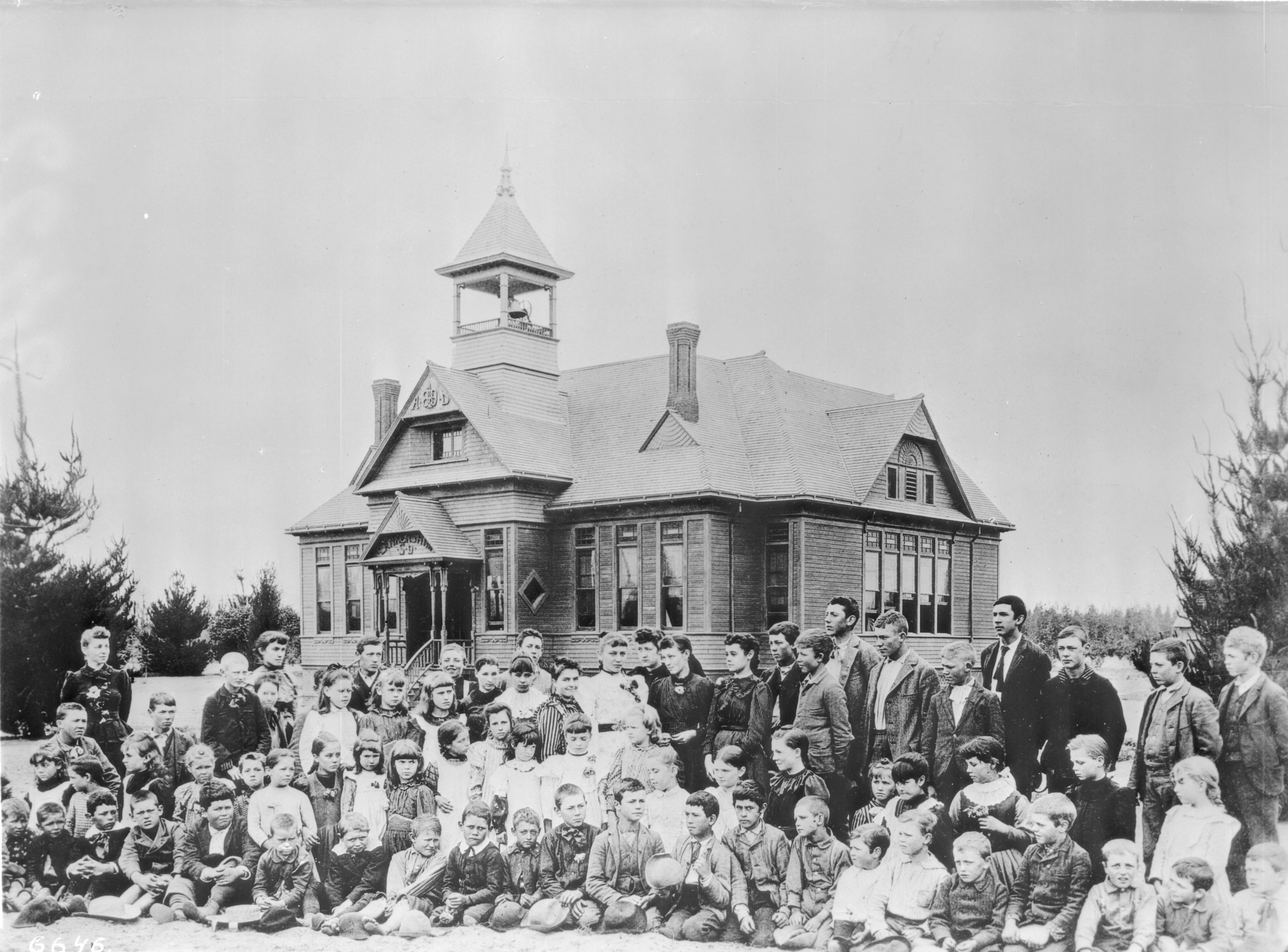 Photograph of a group of students outside of Lankershim School in San Fernando Valley, California, ca.1889. Four rows of boys and girls stand in front of a large, two-story Victorian building sporting a bell tower in a spire at its peak. The schoolmistress stands to the left looking right, with her hands folded behind her back. The order—from the frontmost row which is seated, to the back row—seems to be arranged by age, with the youngest students up front and the oldest furthest back. Most of the boys standing in the last row to the right are dressed in some kind of suit. Some of the children in the first row are barefoot. The first school in the Valley was Lankershim School in 1888. Anna Black Crawford was the first teacher. The school was located at first in an old bunk house until a building could be constructed. This site was at what is now Vineland and Lankershim Blvd. (North Hollywood), and was W. H. Andrews Ranch. [1]